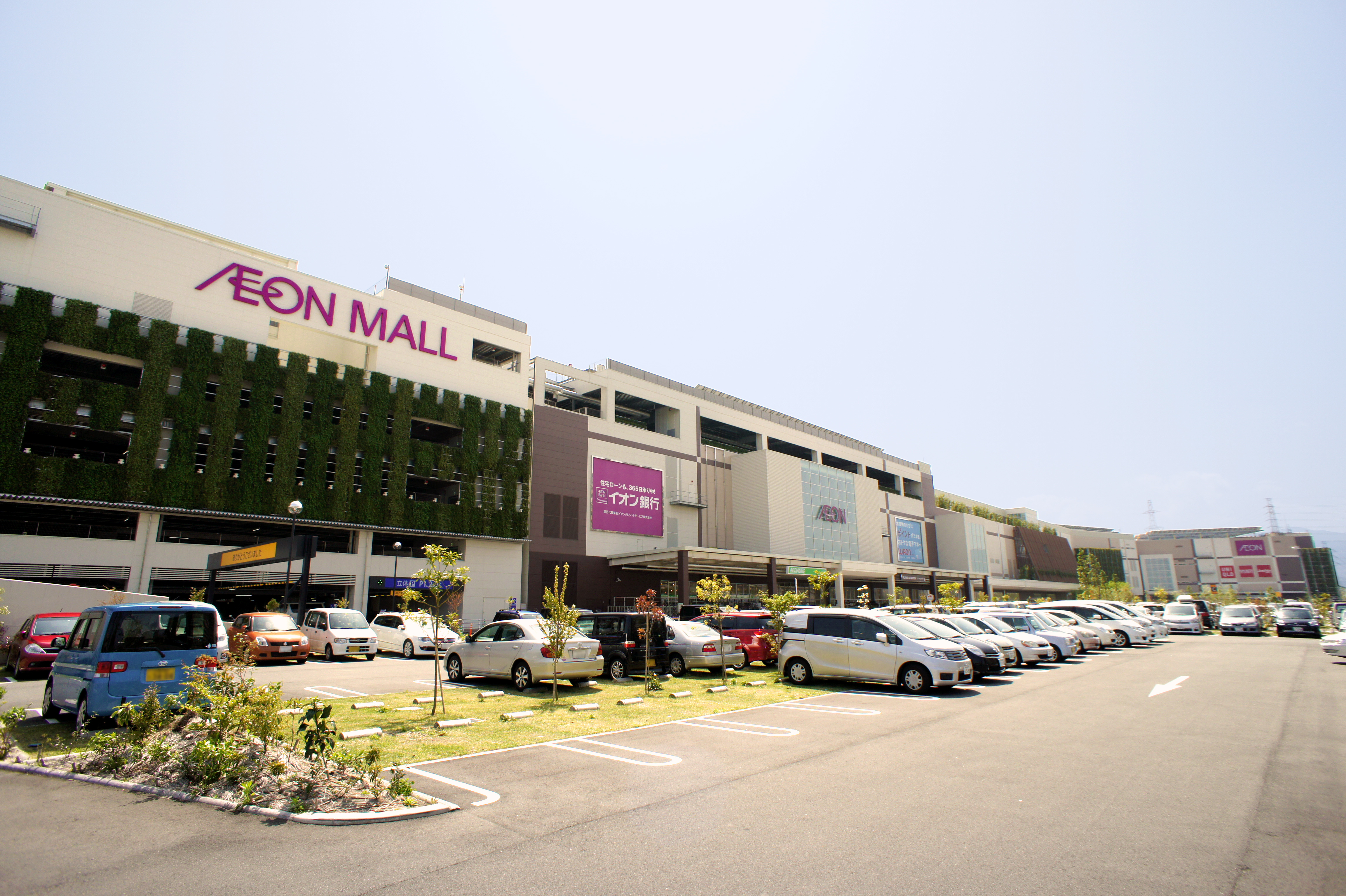 AEON MALL Itami Koya, 4-1-1 Ikejiri Itami-City Hyogo JAPAN.